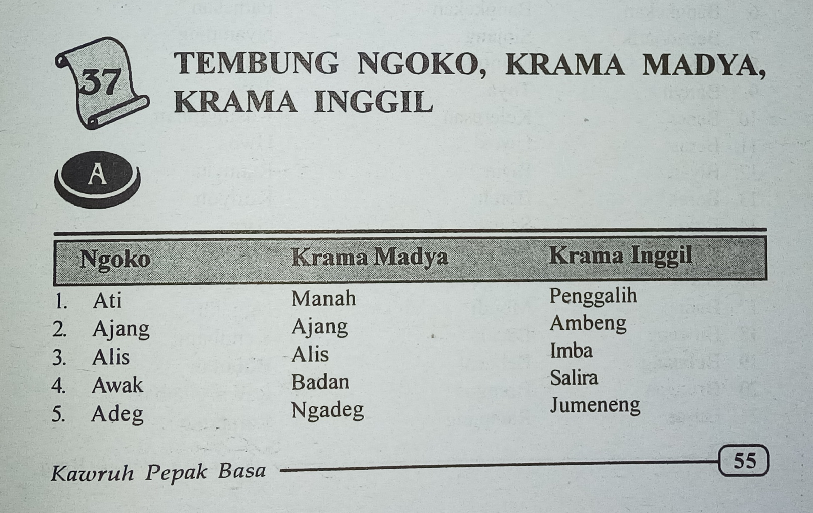 Wrong Javanese speech levels in Pepak Basa Jawa